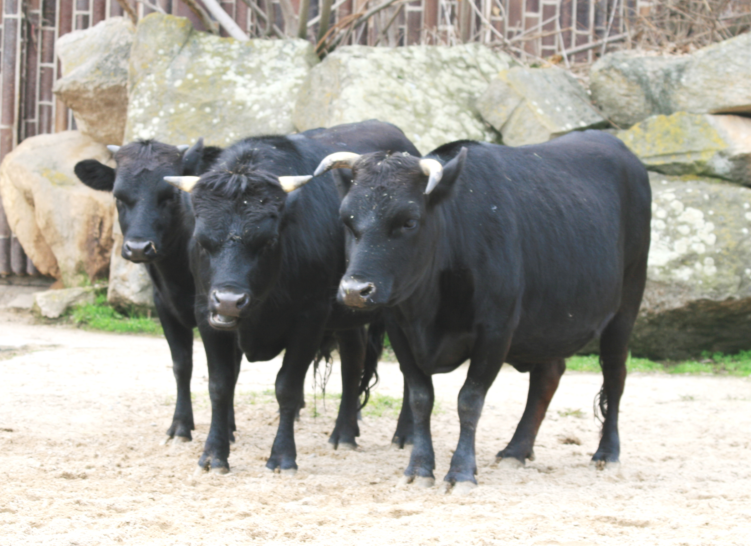 Cattle (Dahome), Bos taurus in ZOO Dvůr Králové, Czech Republic